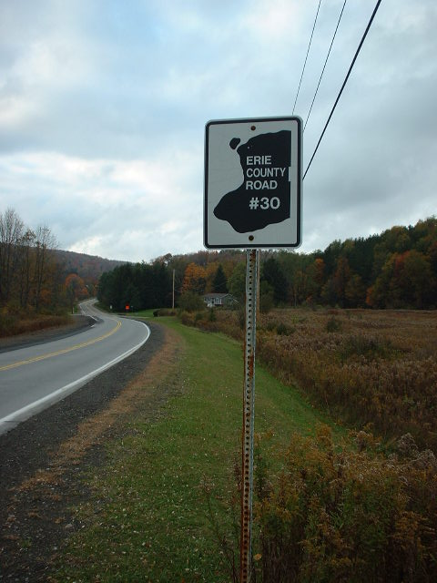 The lone Erie County Route 30 shield along New York State Route 240 in Orchard Park, New York. Most of Route 240 is county-maintained.